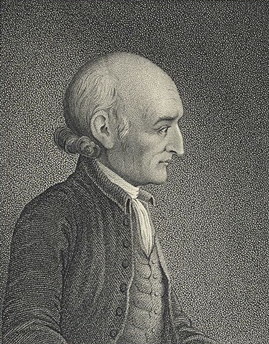 George Wythe, signer of the declaration of independence